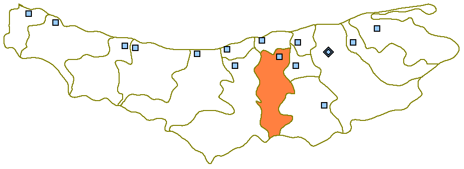 Author: Siamax Source: MazandaranPlainMap.PNG Tag: Babol location in Mazandaran